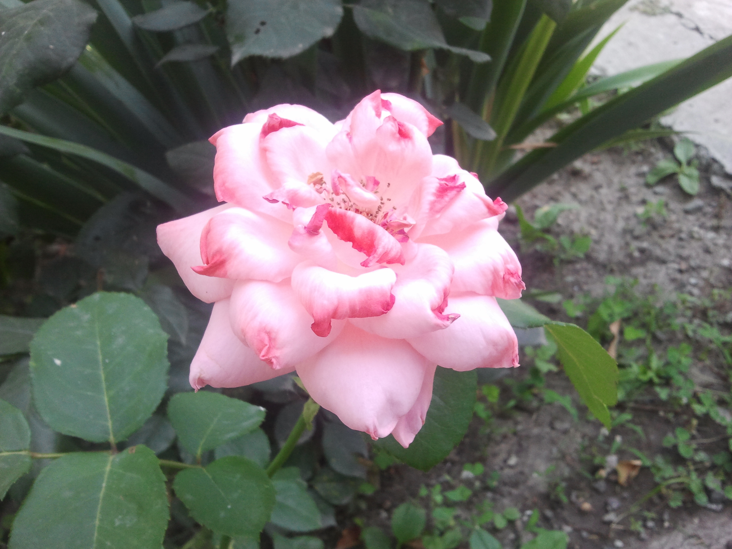 Garden rose (Ismayilli, Azerbaijan)